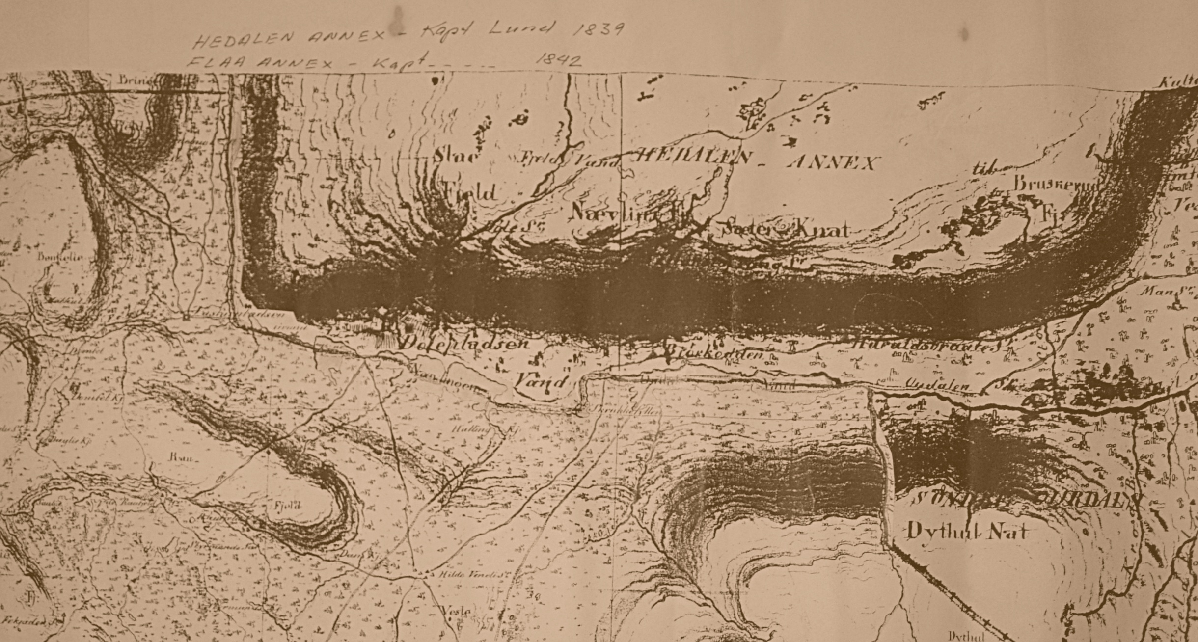 Map of Vassfaret, 1839-1842